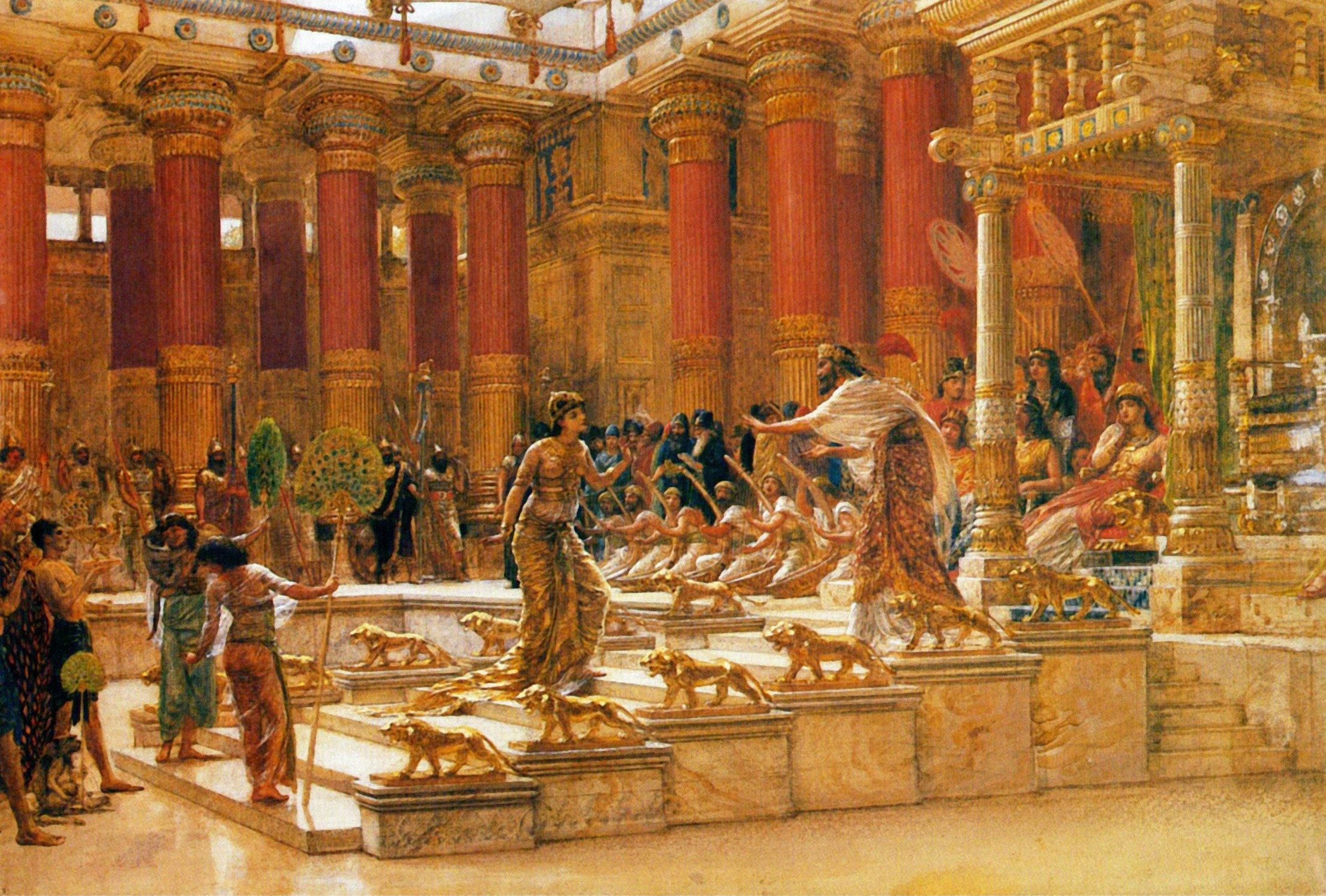 Colour sketch by Edward Poynter for his 1890 painting "The Visit of the Queen of Sheba to King Solomon"